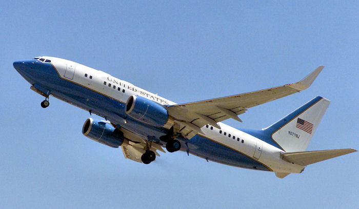 The C-40 B/C provides safe, comfortable and reliable transportation for U.S. leaders to locations around the world. The C-40B's primary customers are the combatant commanders and C-40C customers include members of the Cabinet and Congress. The aircraft also perform other operational support missions (B-737 BBJ) (89th Airlift Wing/ 113th Wing, D.C. Air National Guard)